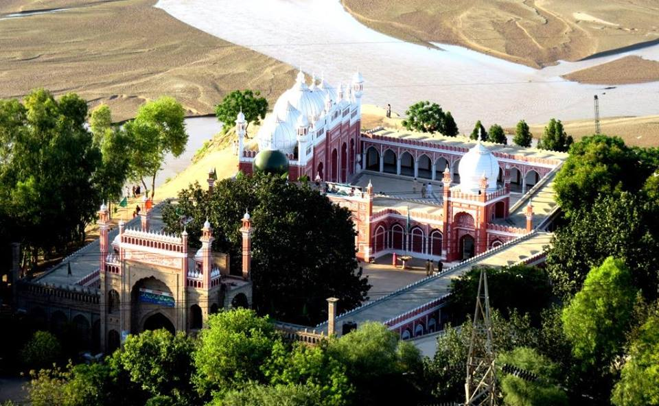 This is the worship place of Bu Ali shah Sharaf in chiniot pakistan